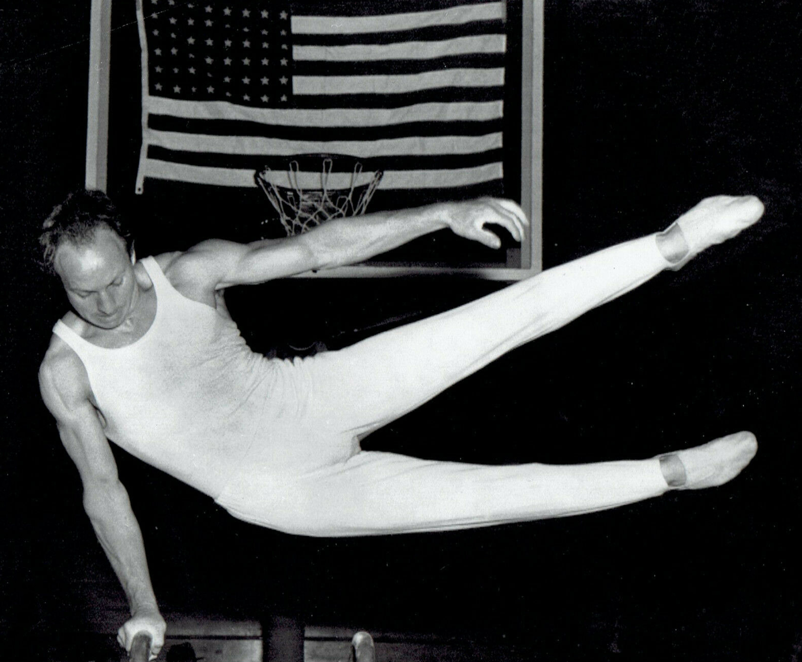 1957 Wire Photo Hungarian Olympic gymnast Attila Takach performs on pommel horse